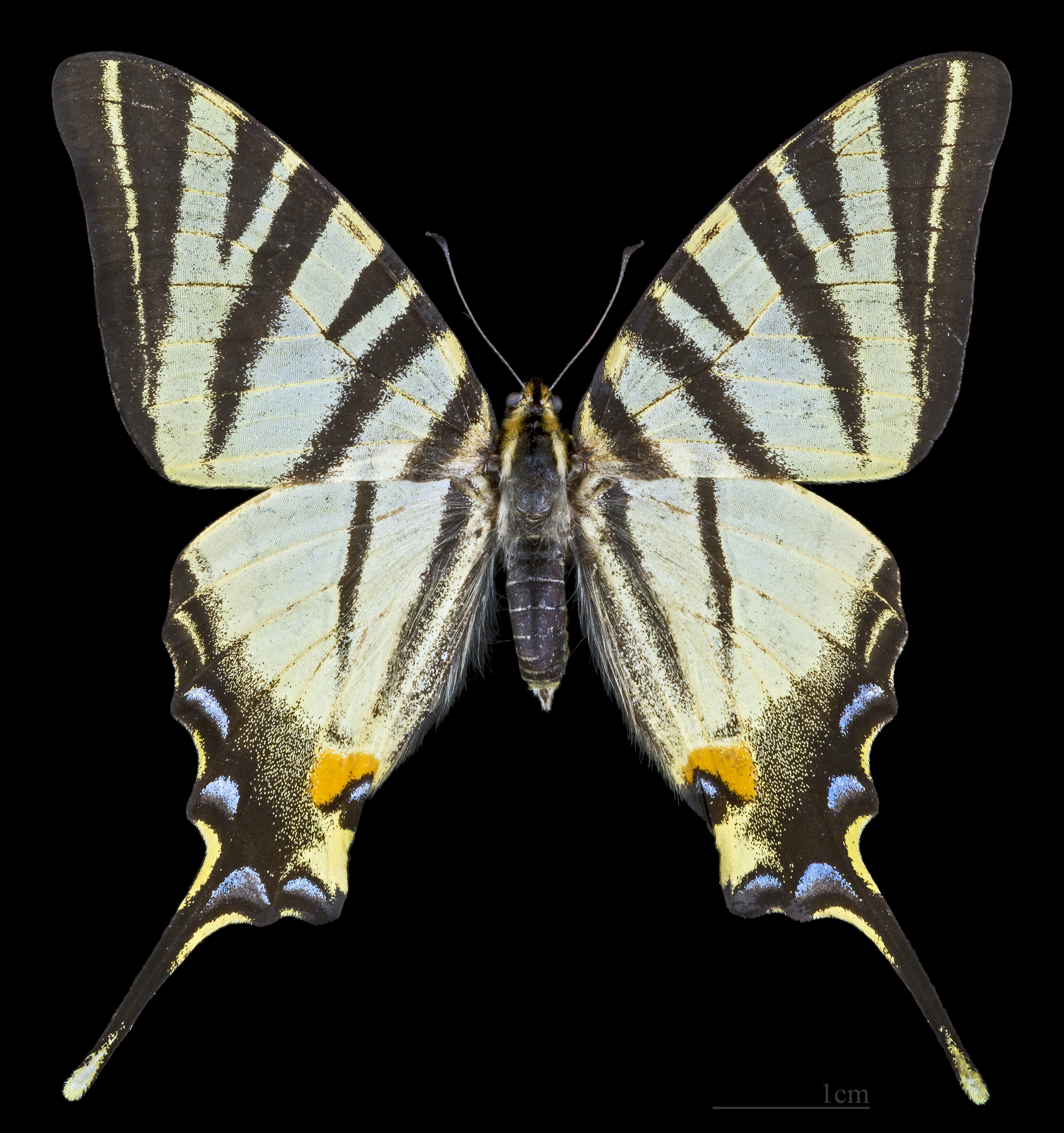 Scarce Swallowtail. Dorsal side.